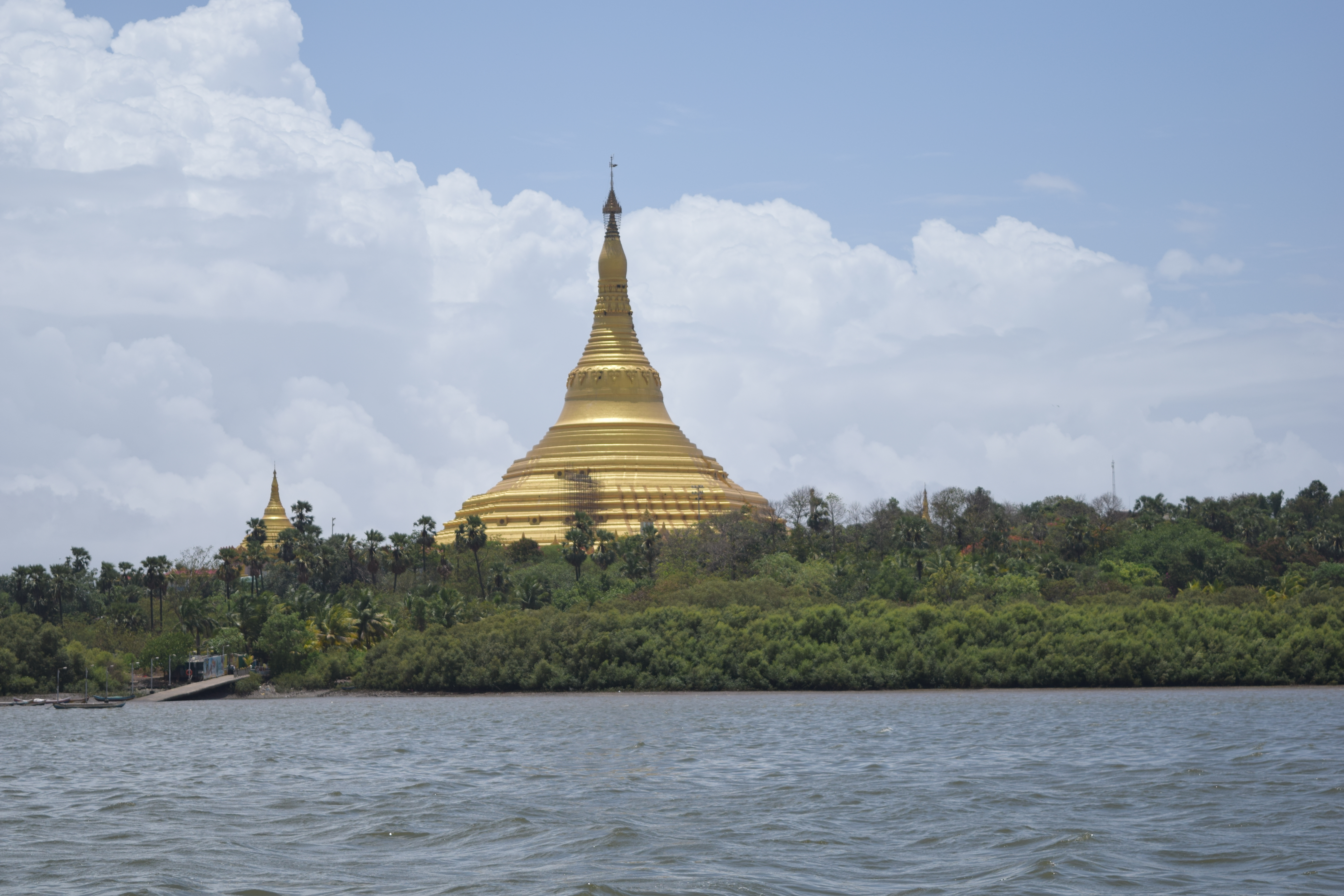 The Global Vipassana Pagoda view from the Creek.